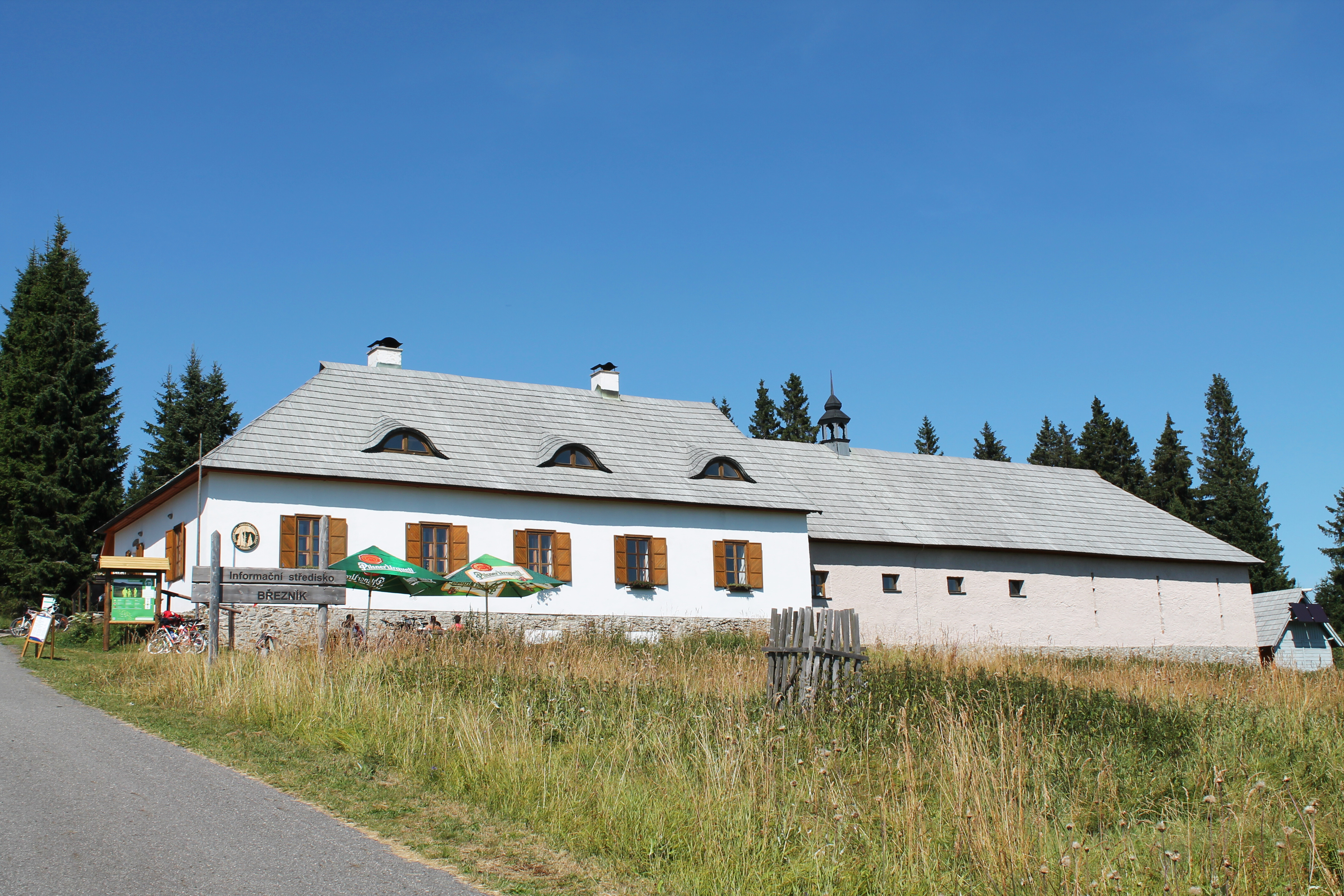 Březník, Modrava, Klatovy District, Czech Republic; Šumava National Park information centre Březník